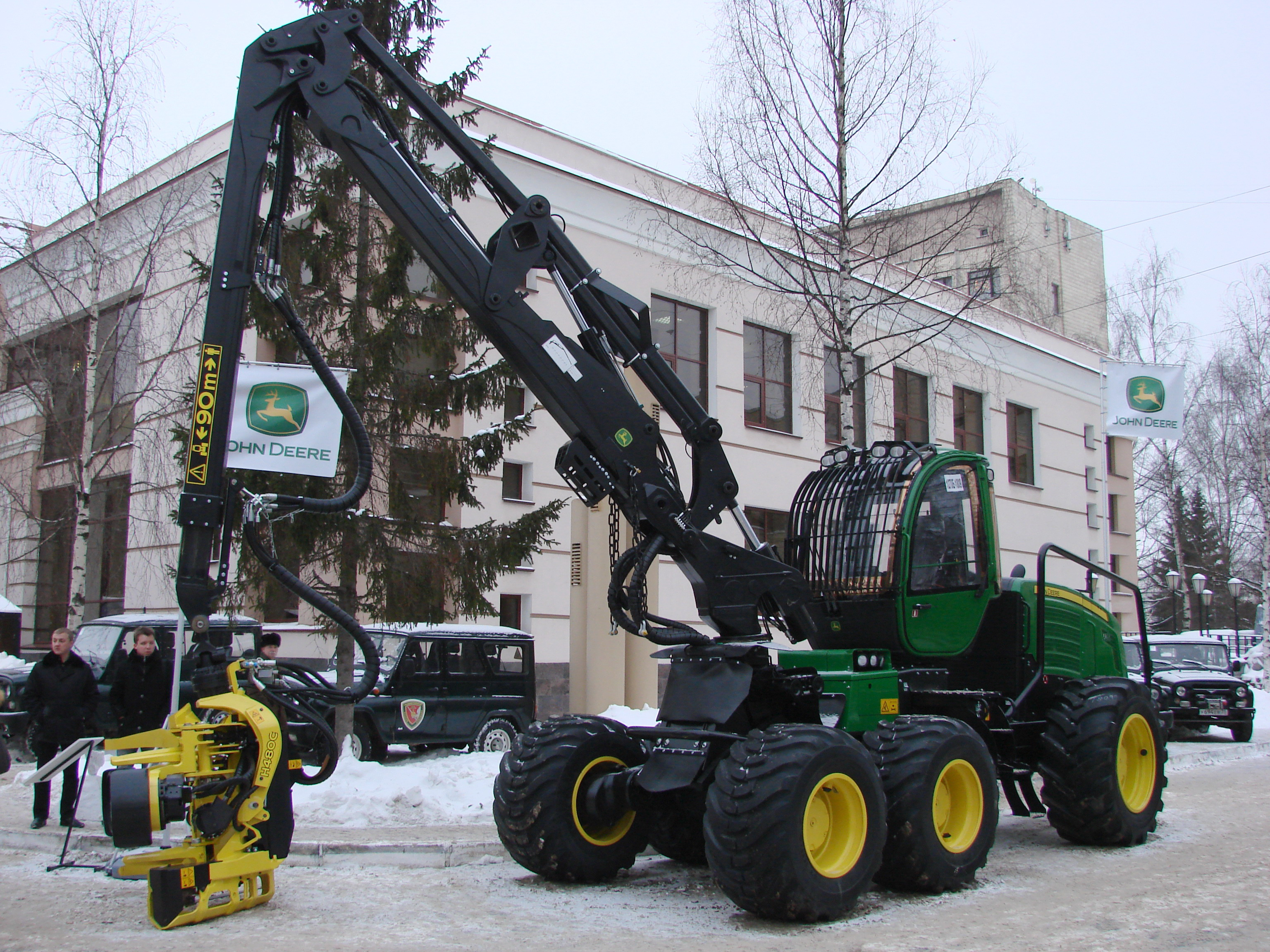 Russia, Vologda, Exhibition-Fair «Russian forest», harvester John Deere